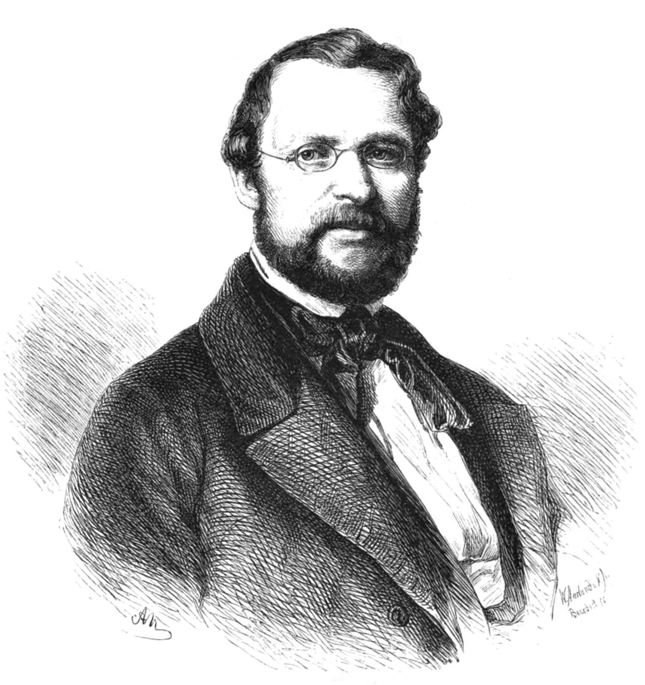 no caption